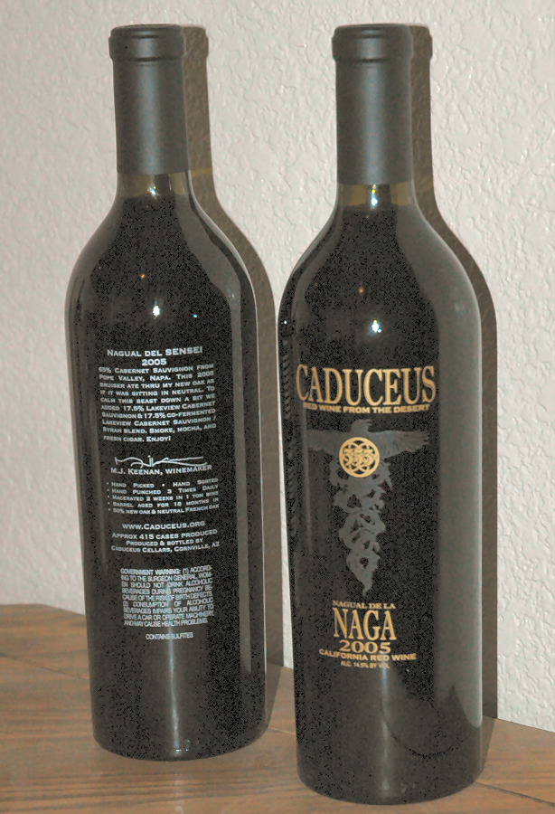 Maynard James Keenan's Caduceus branded wines